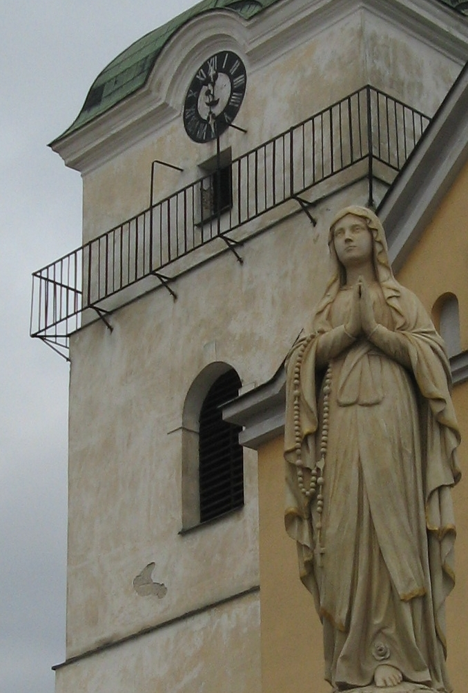 Statue of queen Mary in PB